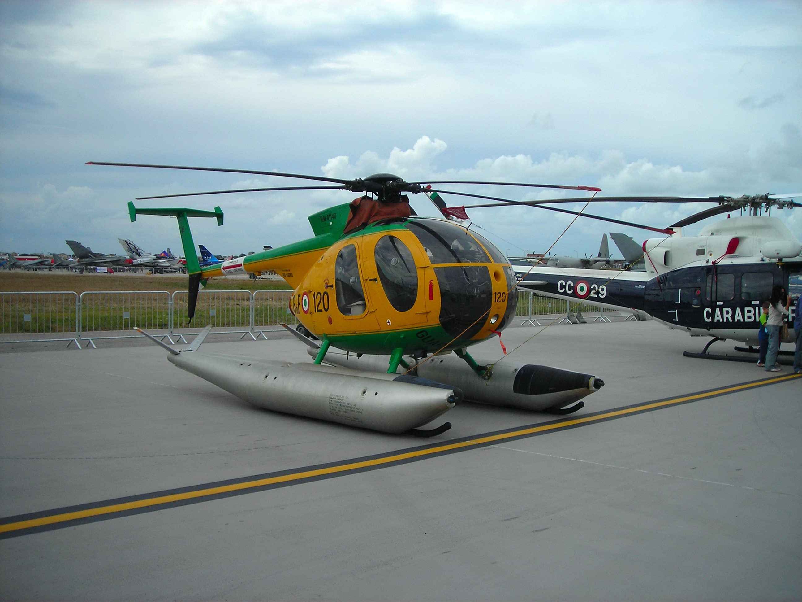 Hughes H-6 of Guardia di finanza. Picture taken during "Giornata Azzurra" 2006 (Italian Air Force airshow) at Pratica di Mare AFB, Italy.